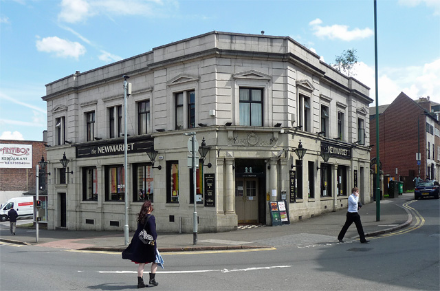 The Newmarket. Broad Street, Nottingham